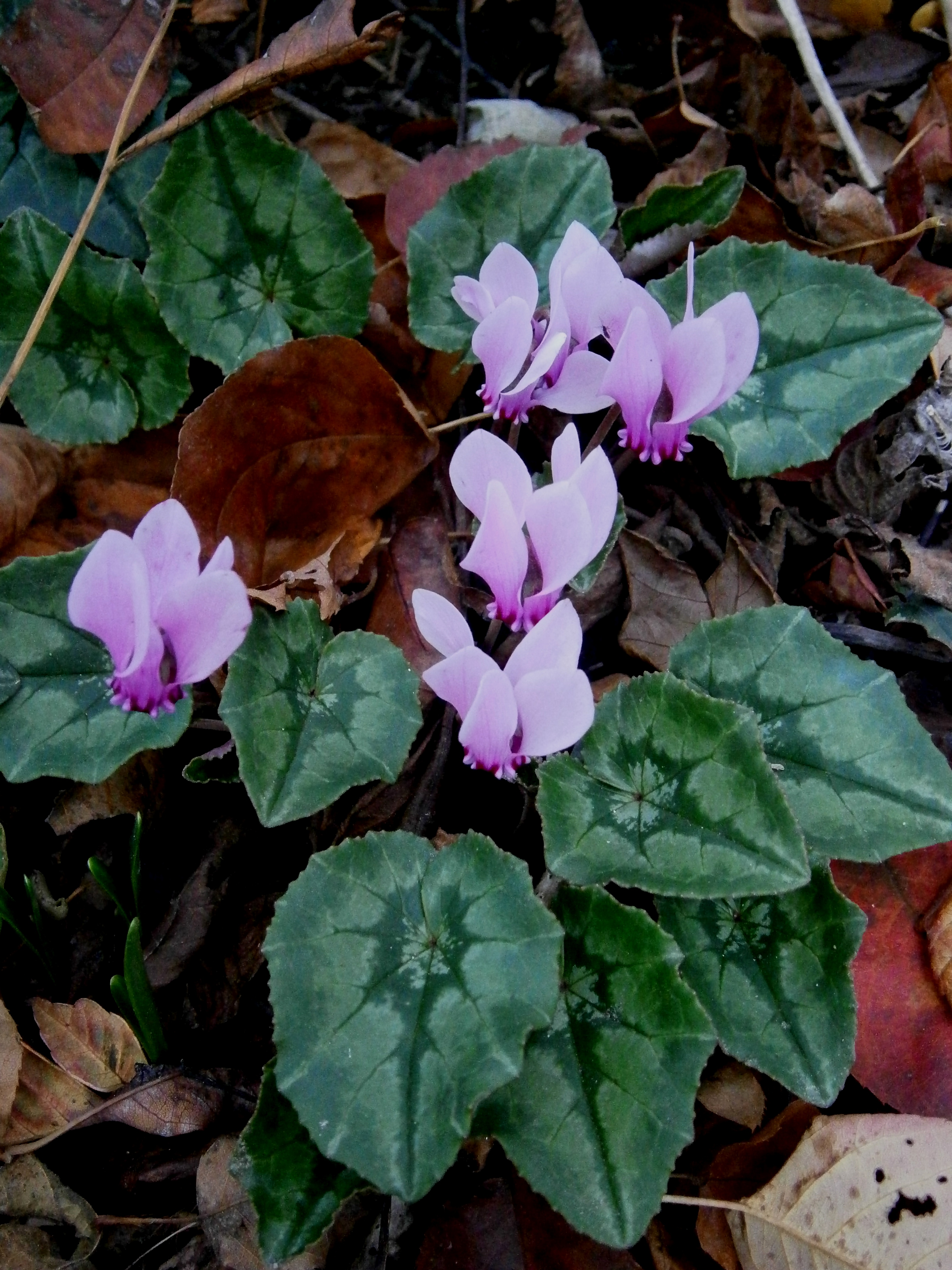 Cyclamen hederifolium flower & leaf (October)